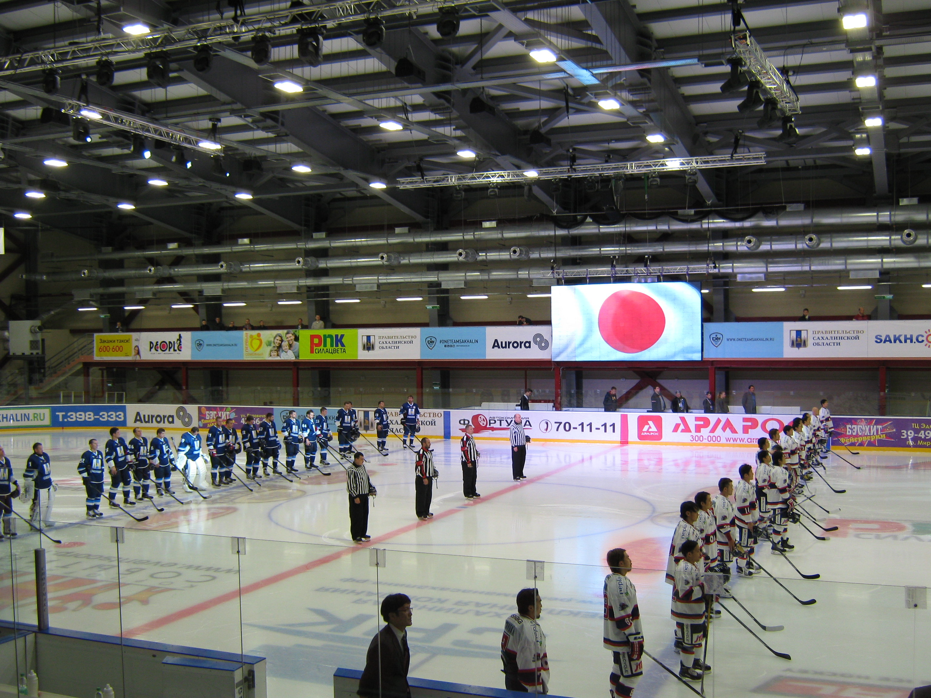 The game Sakhalin vs Oji Eagles of the regular season 2015-16 of Asia League Ice Hockey in Yuzhno-Sakhalinsk, Russia on 20 September 2015. The teams are listening to the national anthem of Japan just before the game.